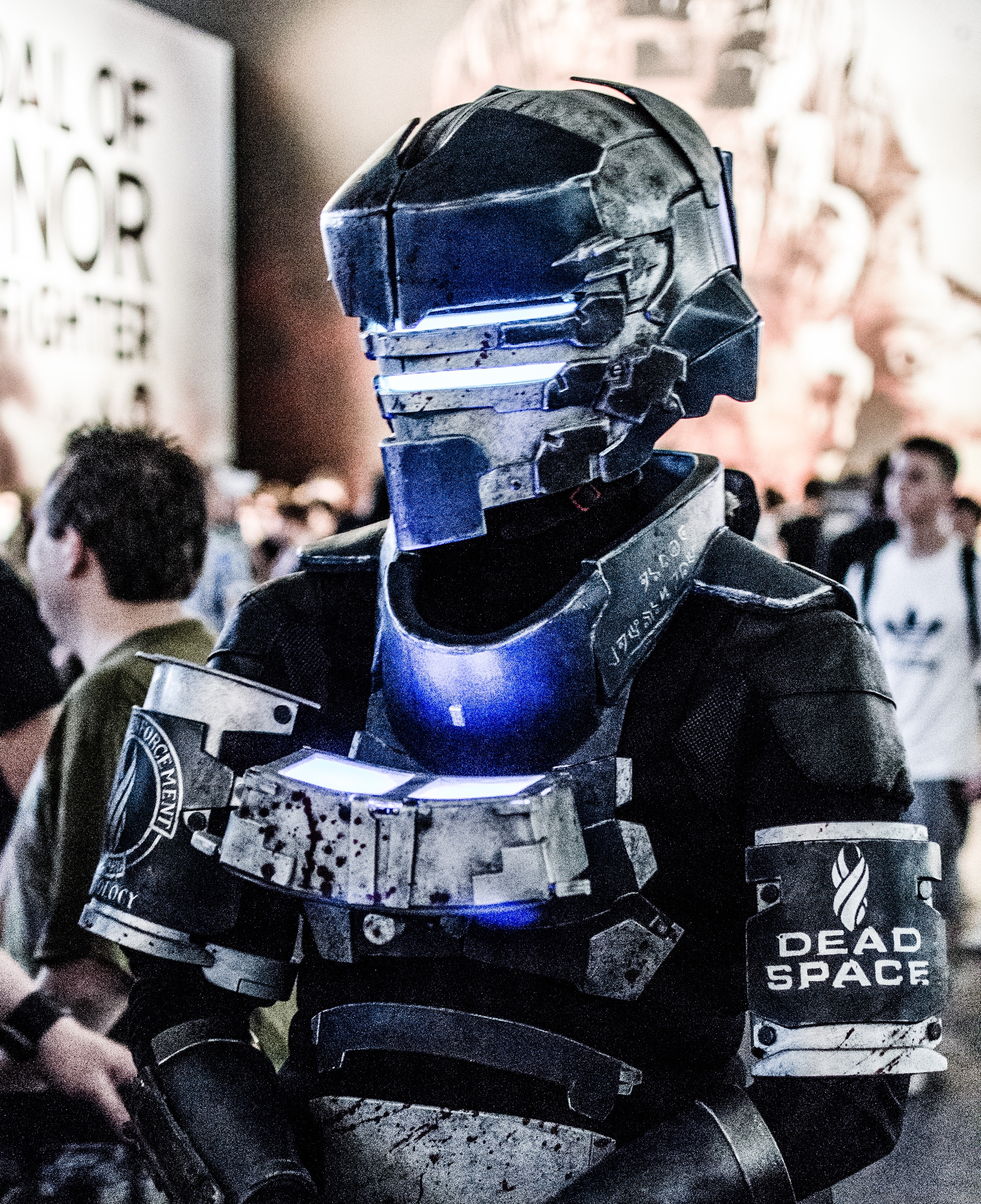 Isaac Clarke from Dead Space @ Gamescom 2012